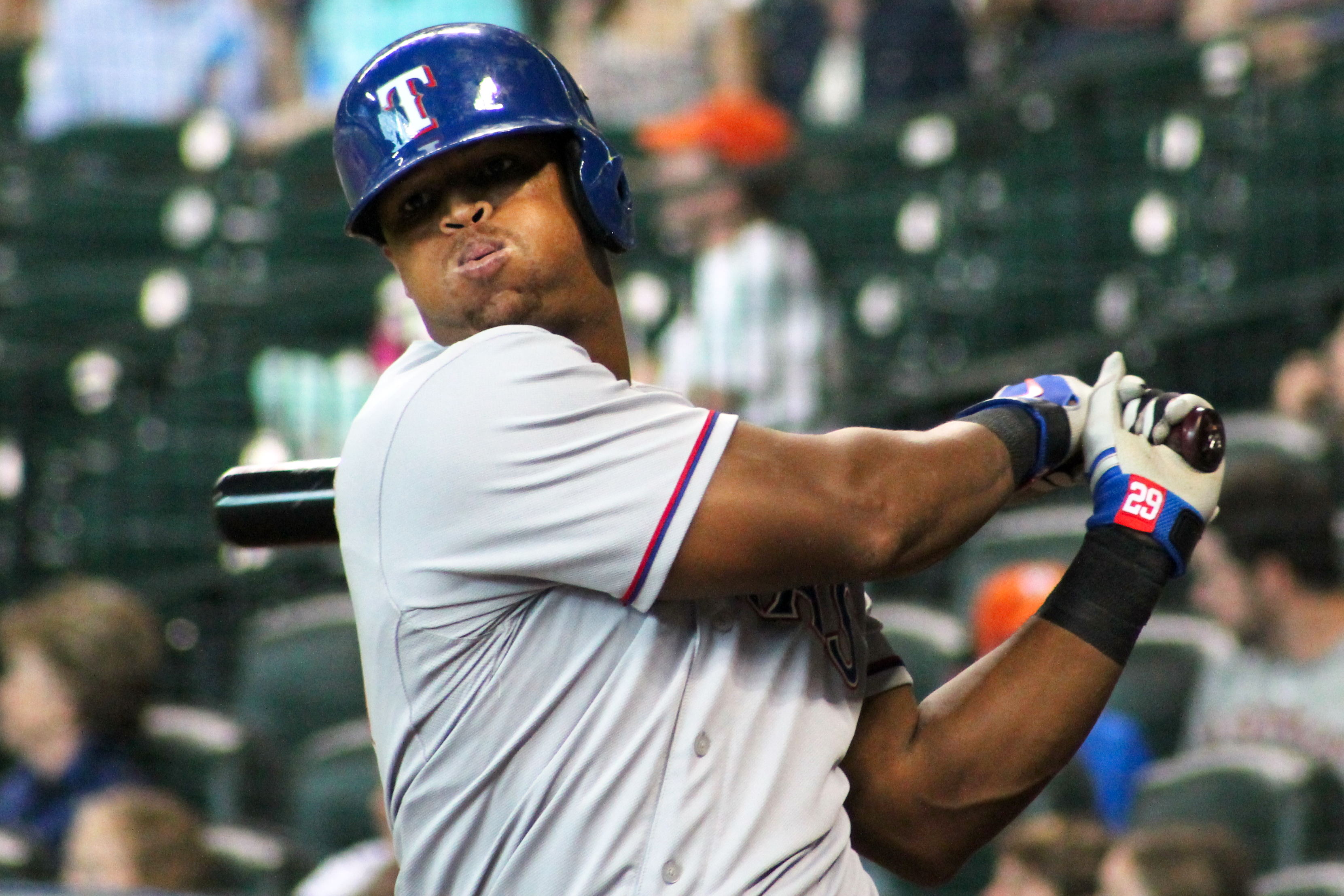 Professional baseball player Adrián Beltré during an August 2014 game at Minute Maid Park.